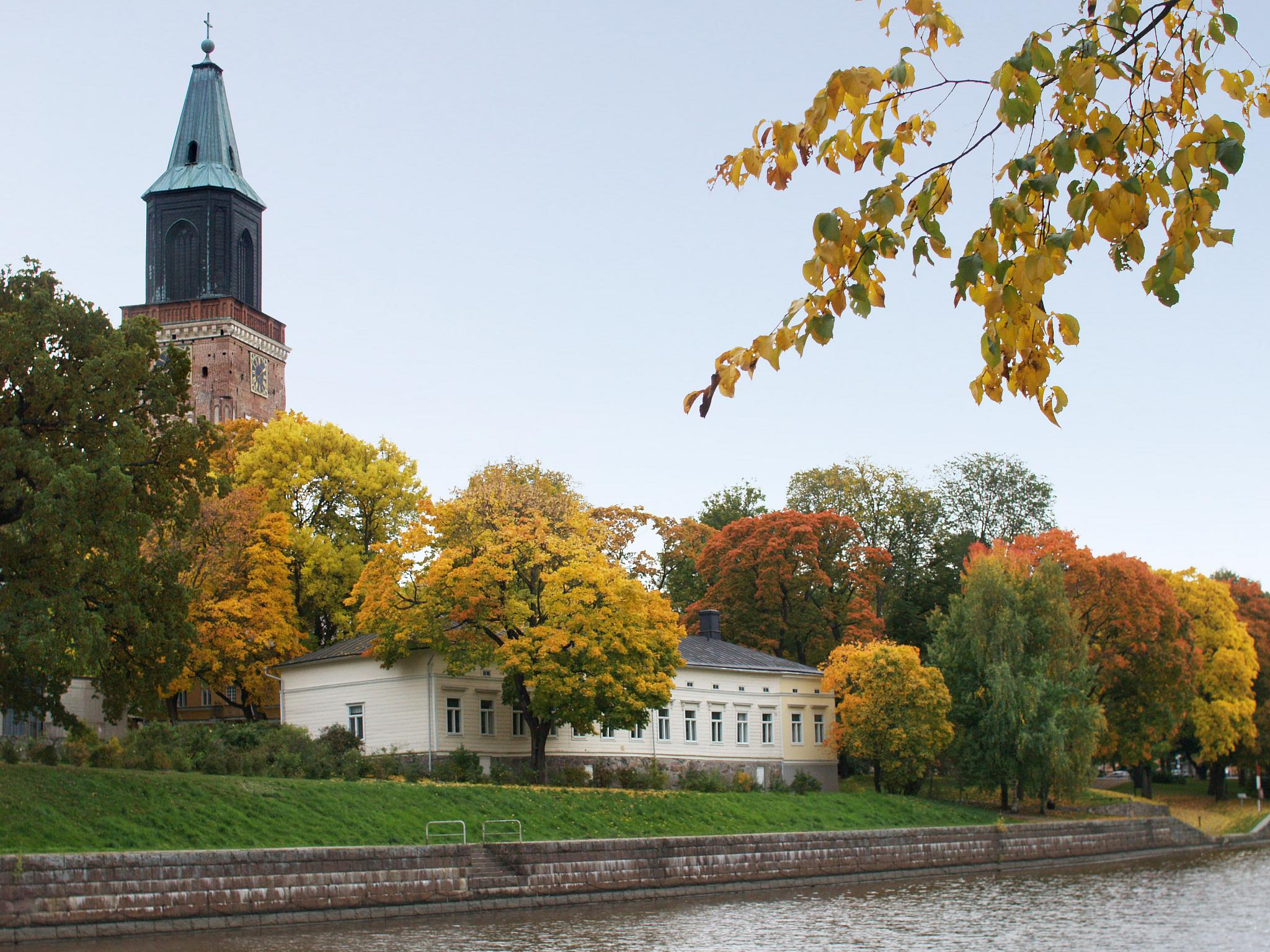 Autumn in Turku. The left bank of the river Aura, with the Cathedral and one of the houses of Åbo Akademi University.